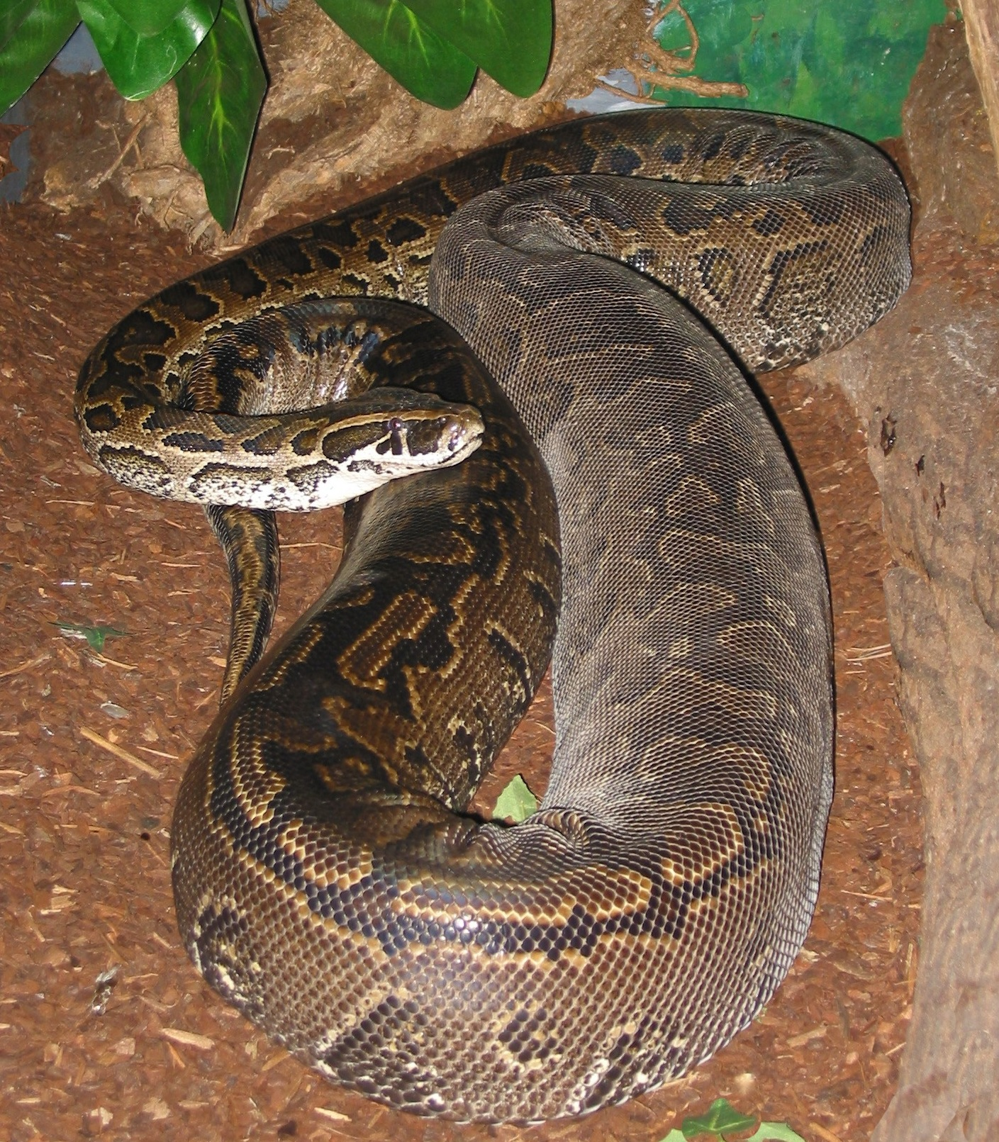 Adult female Northern African Rock Python (Python sebae). This animal lives in captivity. Donated by